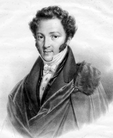 Bohemian pianist and composer Ignaz Moscheles (1764-1870) by Godefroy Engelmann (1788-1839) after Pierre-Roch Vigneron (1789-1872).